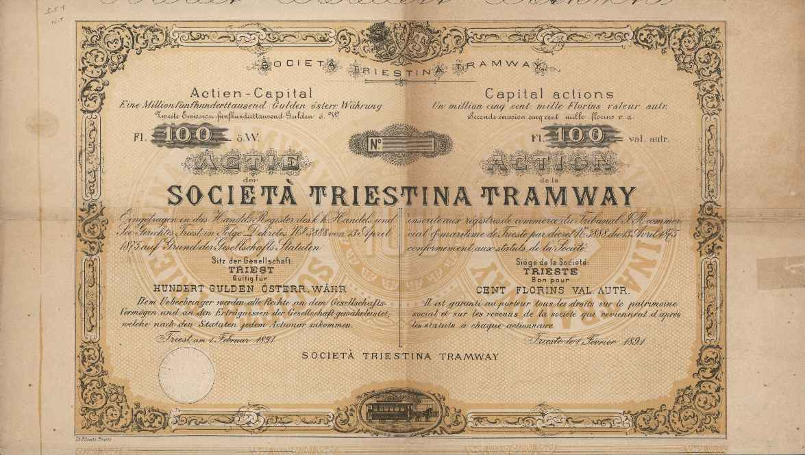 Aktie der Società Triestina Tramay